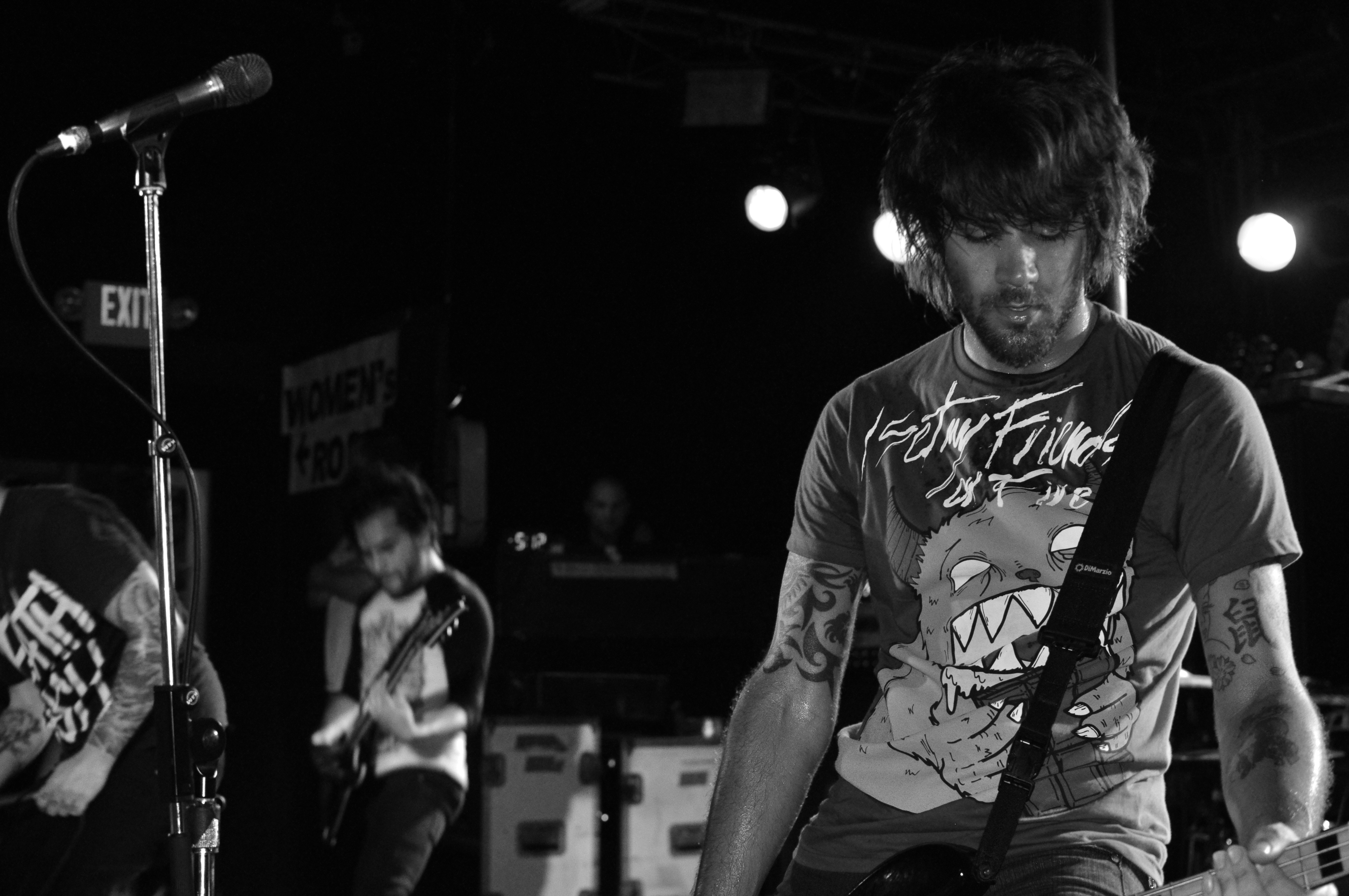 American band Sky Eats Airplaine live in 2010